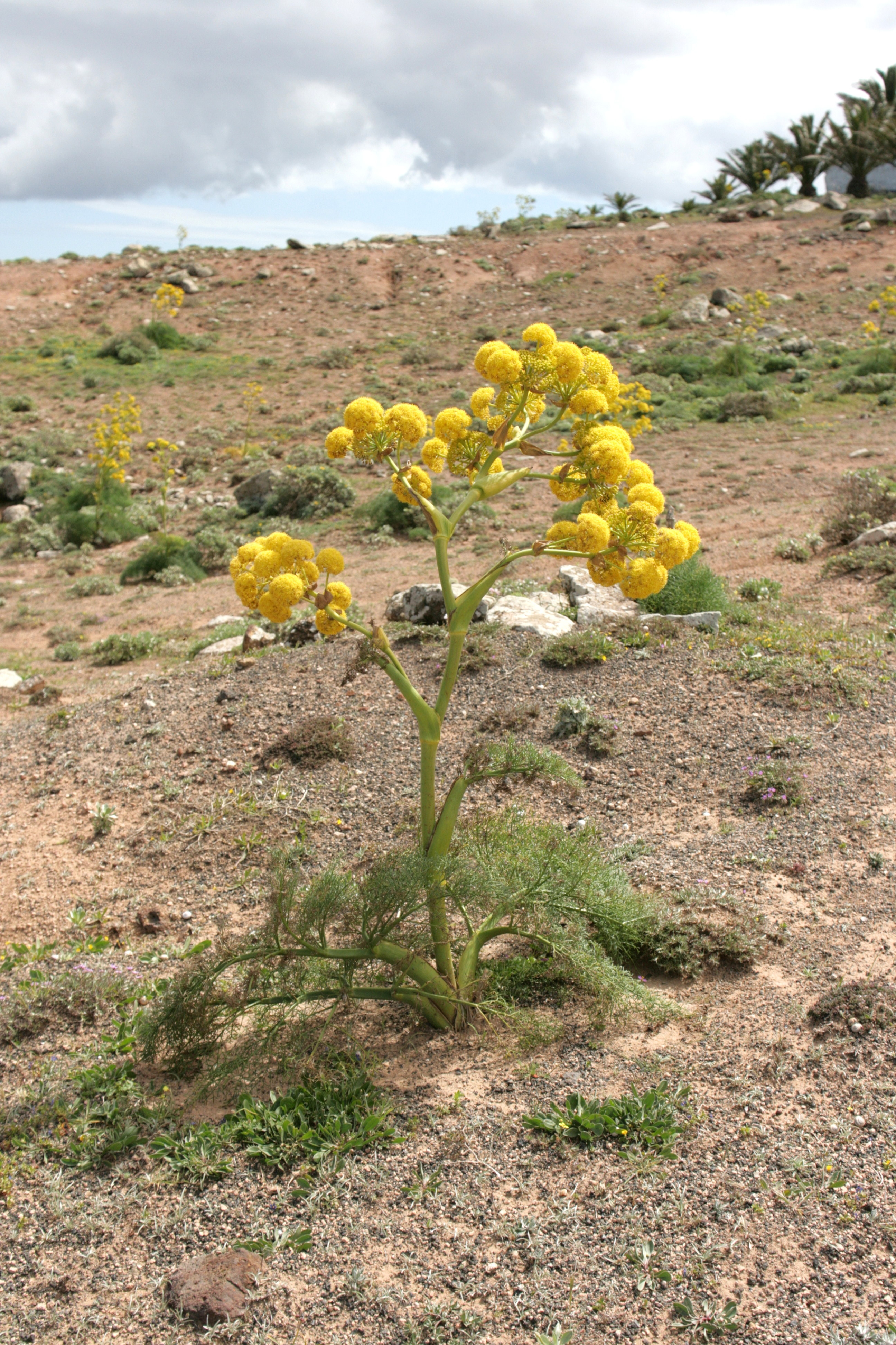 Ferula lancerottensis growing at Camino de Teguise al las Nieves in Teguise